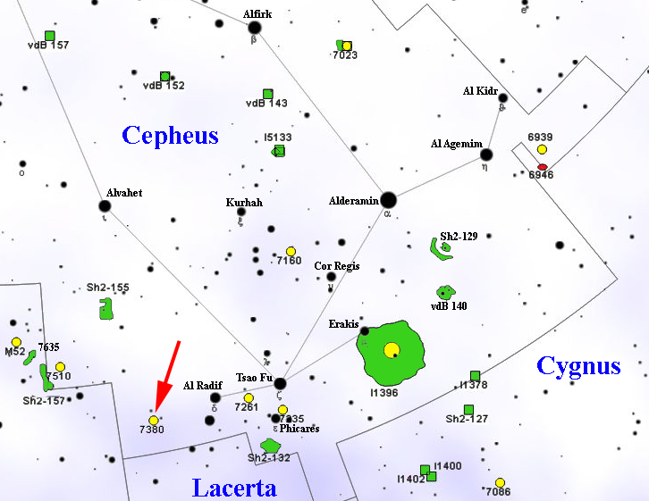 Map of NGC 7380